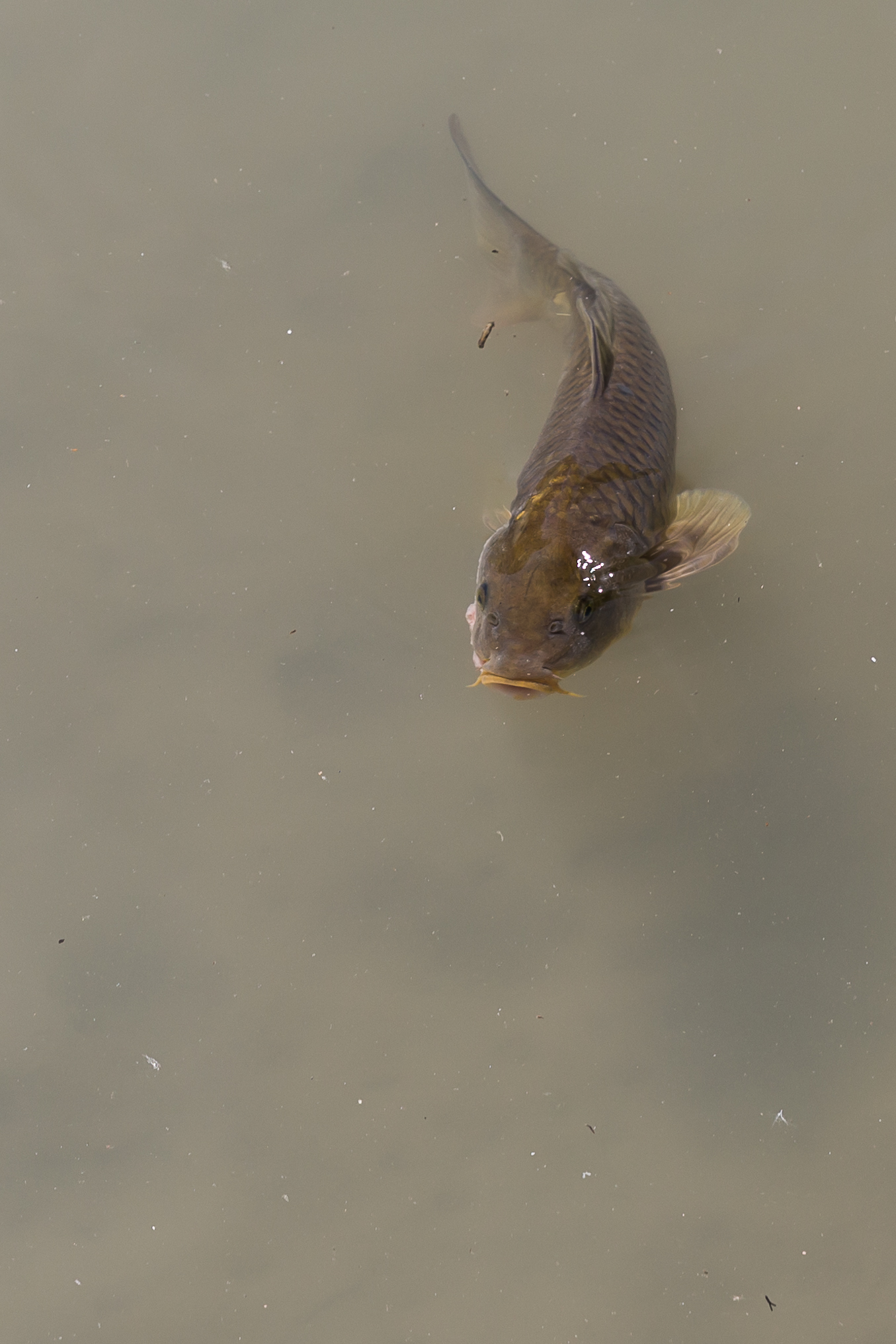 Cyprinus carpio (Common carp) in the ZooParc de Beauval in Saint-Aignan-sur-Cher, France.